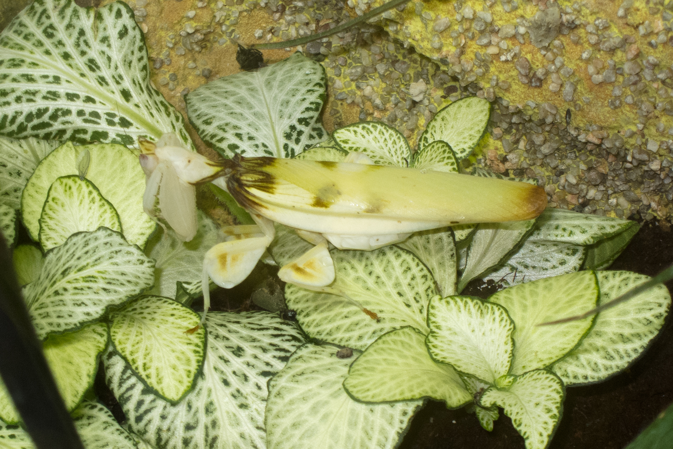 At an insect exhibition - not a native species - Berlin 2012